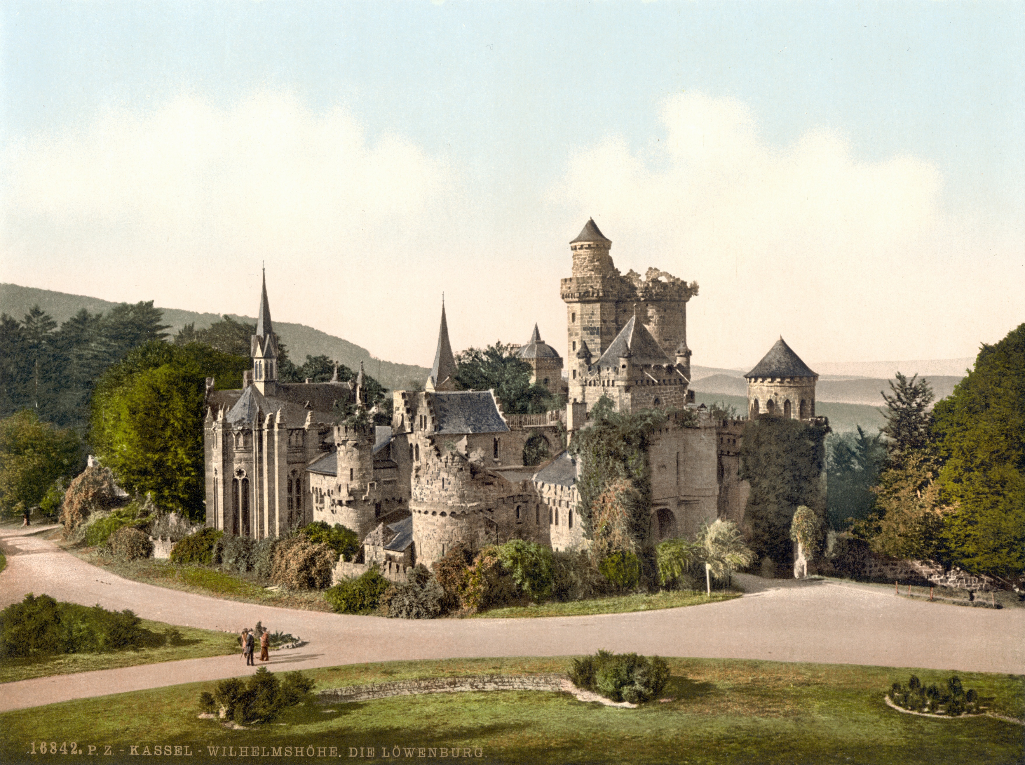 The Loewenburg in Kassel